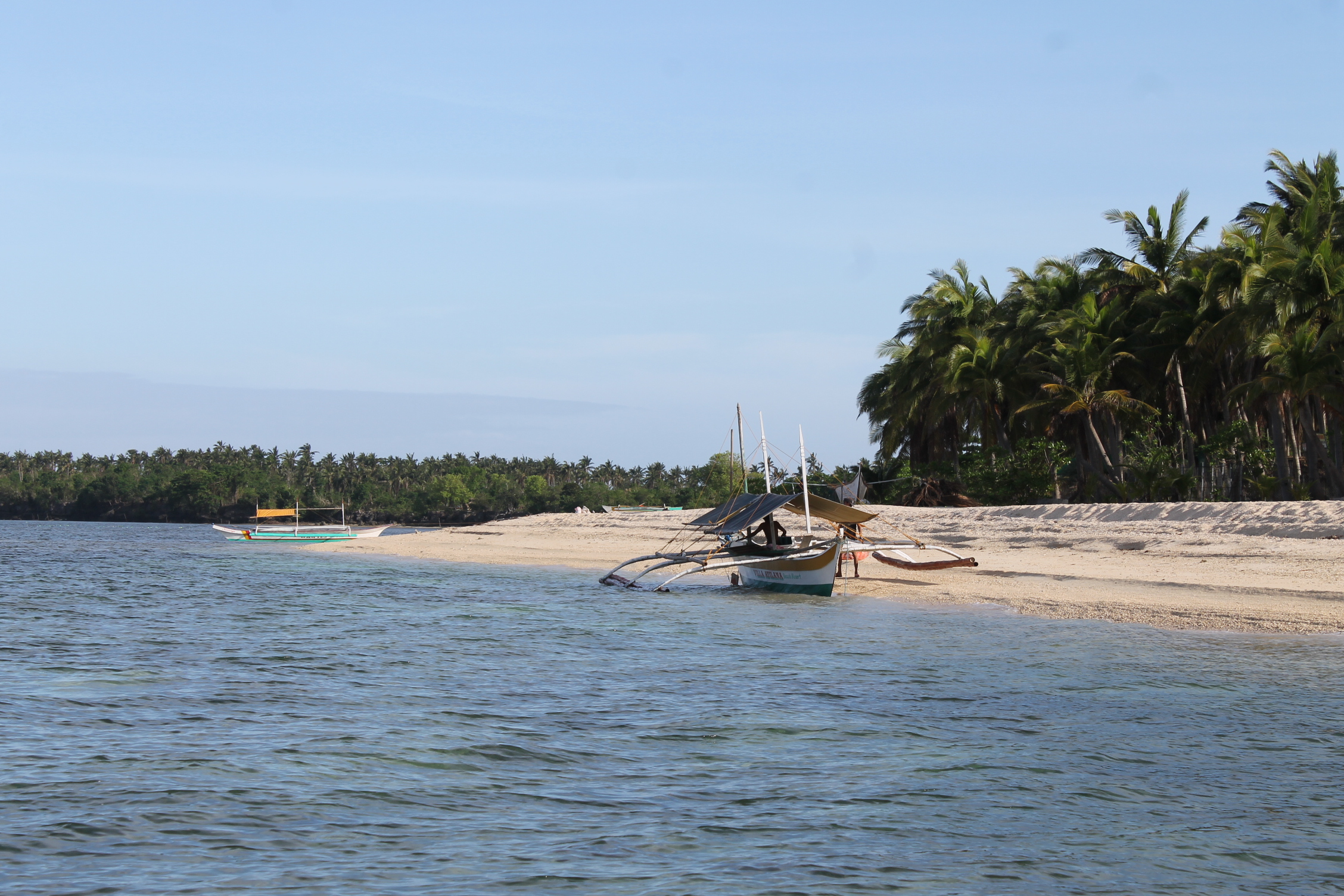 A tourist spot island of Marinduque at the town Sta. Cruz